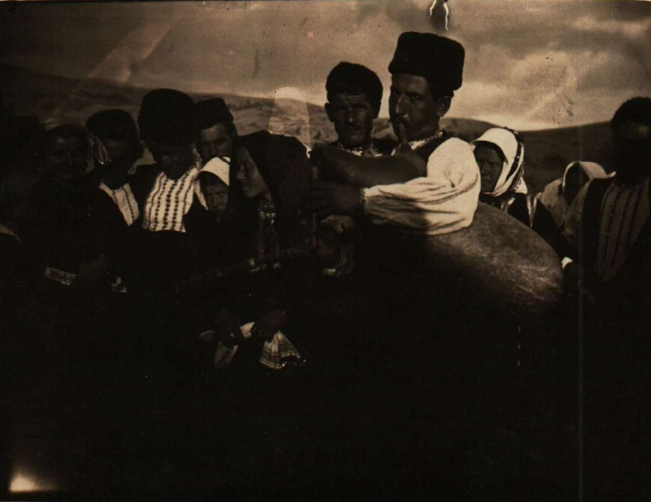 Sasa, Macedonia